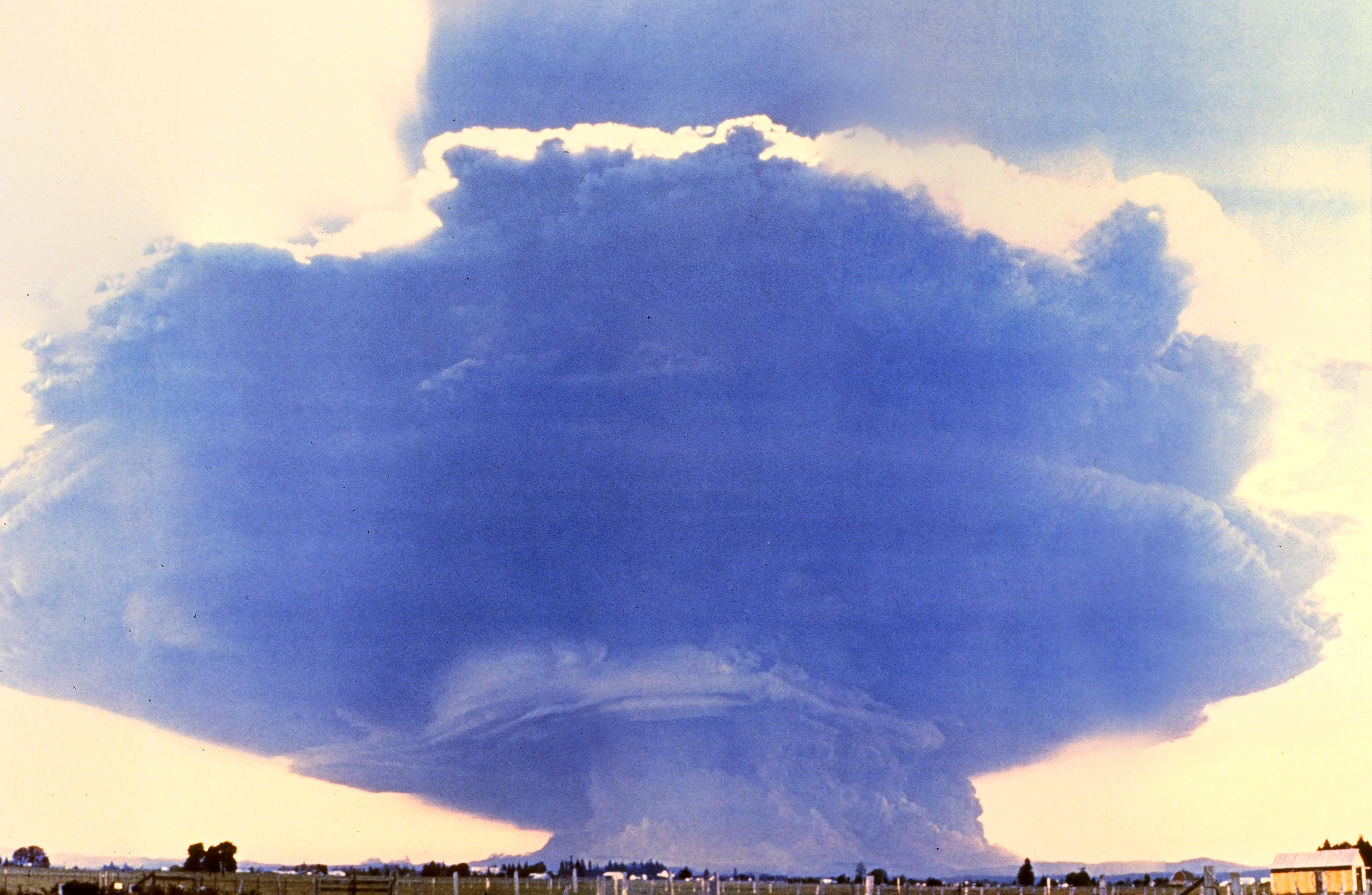 Mt. St. Helens mushroom cloud, 40 miles wide and 15 miles high. Camera location: Toledo, Washington, 35 miles west-northwest of the mountain. The picture is a composite of about 20 separate images.